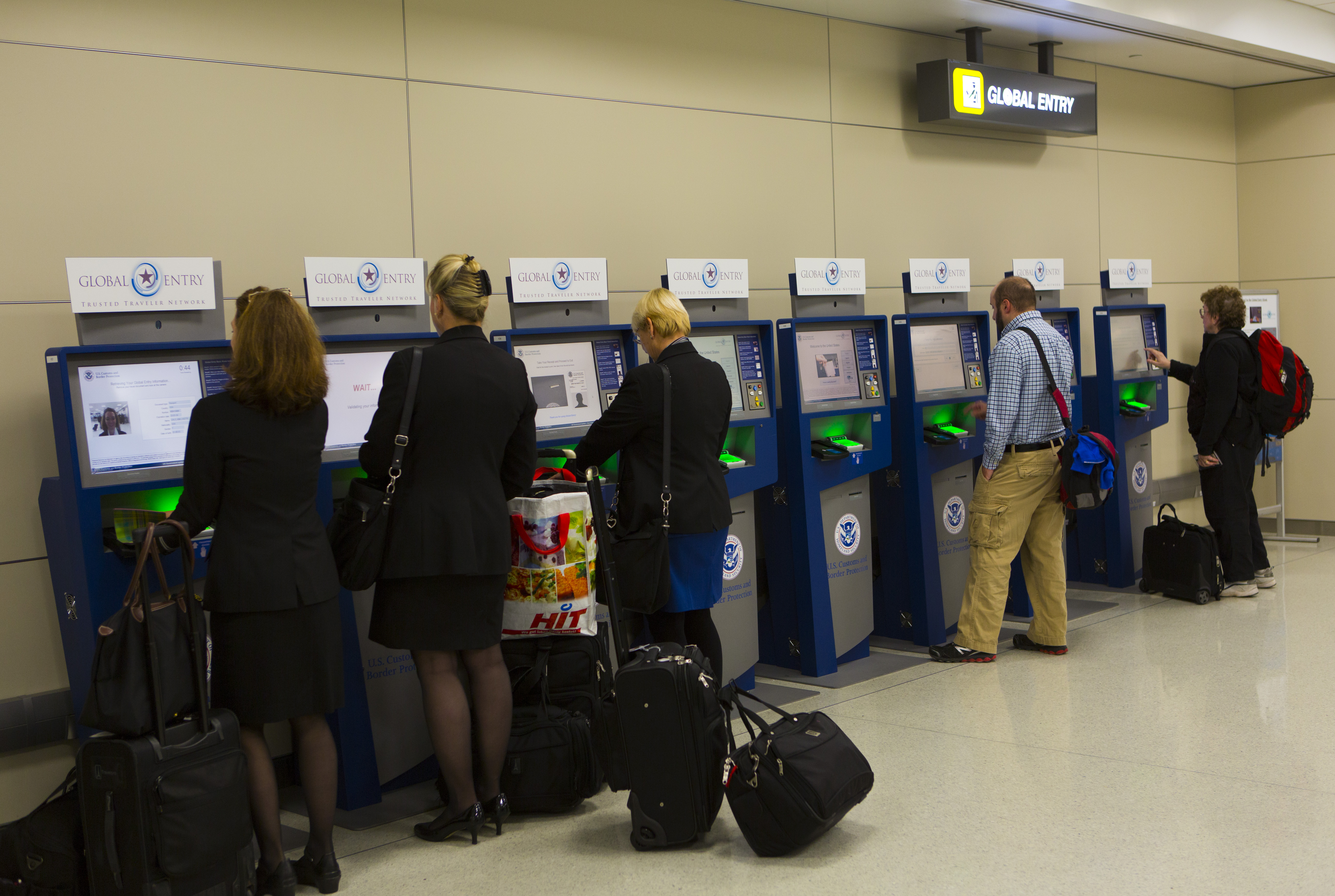 Global Entry and APC Kiosks, located at international airports across the nation, streamline the passenger's entry into the United States. Photo by James Tourtellotte